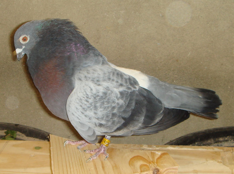 pigeon